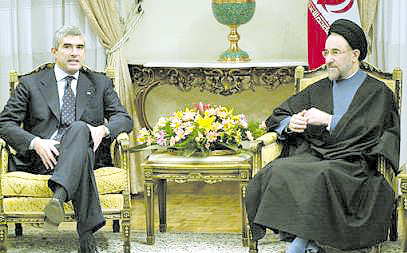 Mohammad Khatami and Pier Ferdinando Casini -Tehran - November 2, 2002